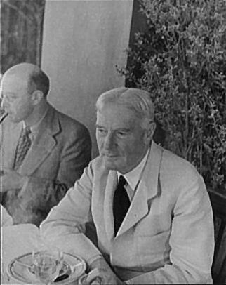 Norman Douglas (1868 - 1952), a British writer Norman Douglas